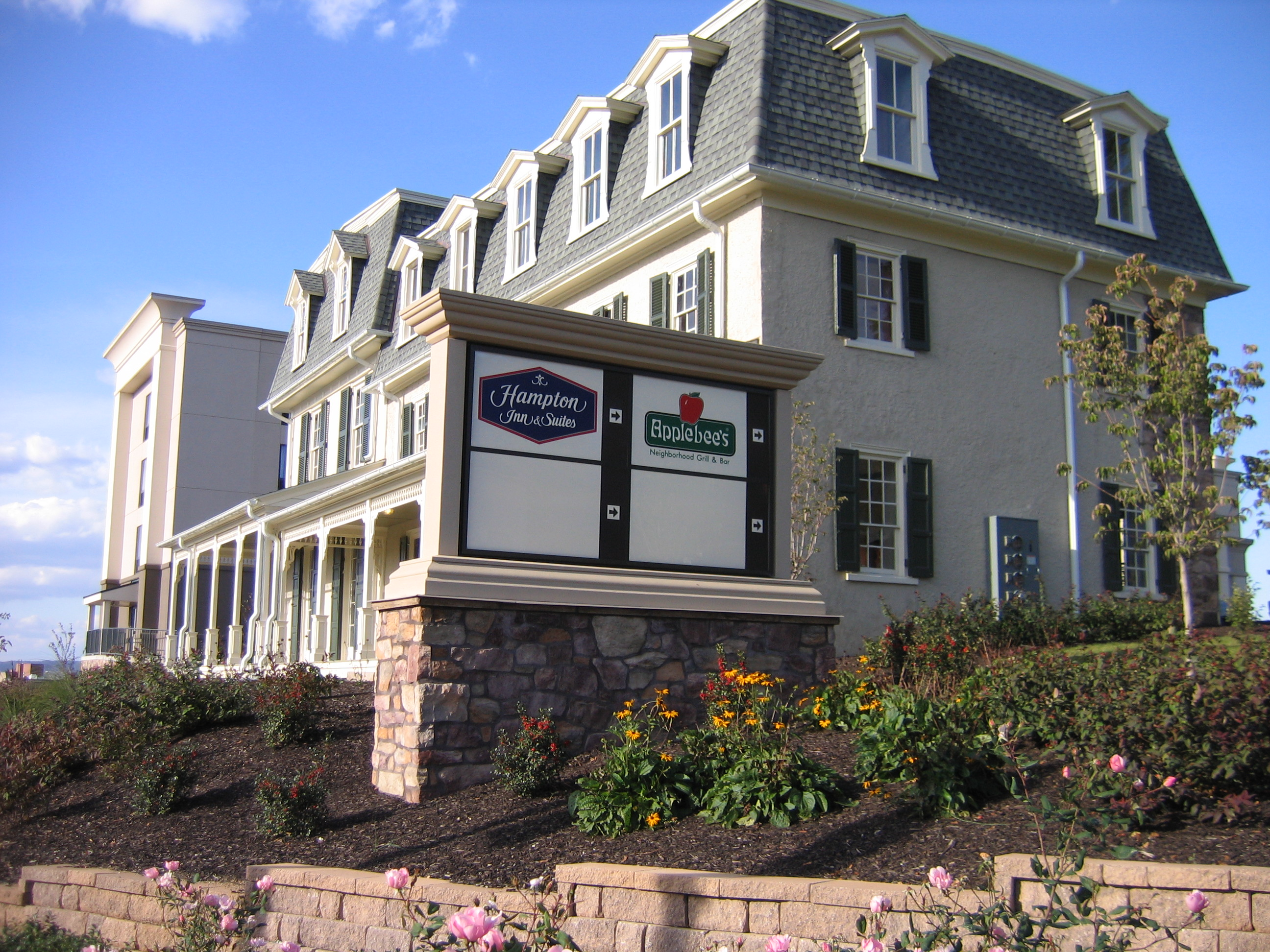 The travesty of commerce trumps history. This is all that remains of the Mountain Springs Hotel in Ephrata, Pennsylvania. The remainder of the hotel was destroyed in the early 2000s to make way for a Hampton Inn and an Applebees.